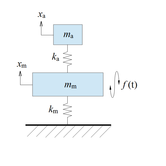 Mass-spring 2 body system, a main mass subjected to a vibratory force, simple model of tuned mass damper model/dynamic vibration absorber